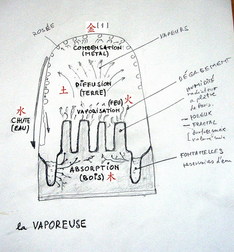 European understanding of Wu Xing Unknown